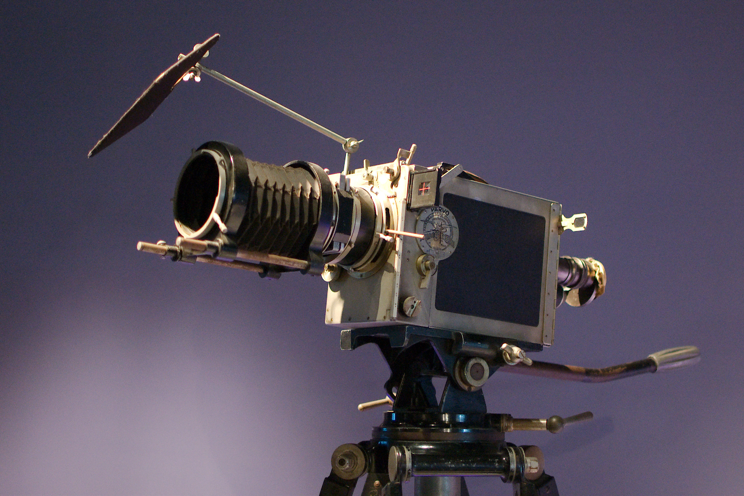 A 35mm Debrie Parvo movie camera, Model L, made in 1927. Mounted on a Debrie Tripod. Seen at the Museum of the Moving Image, Astoria, New York.